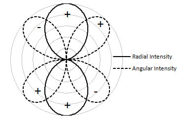 Dipole Intensity field